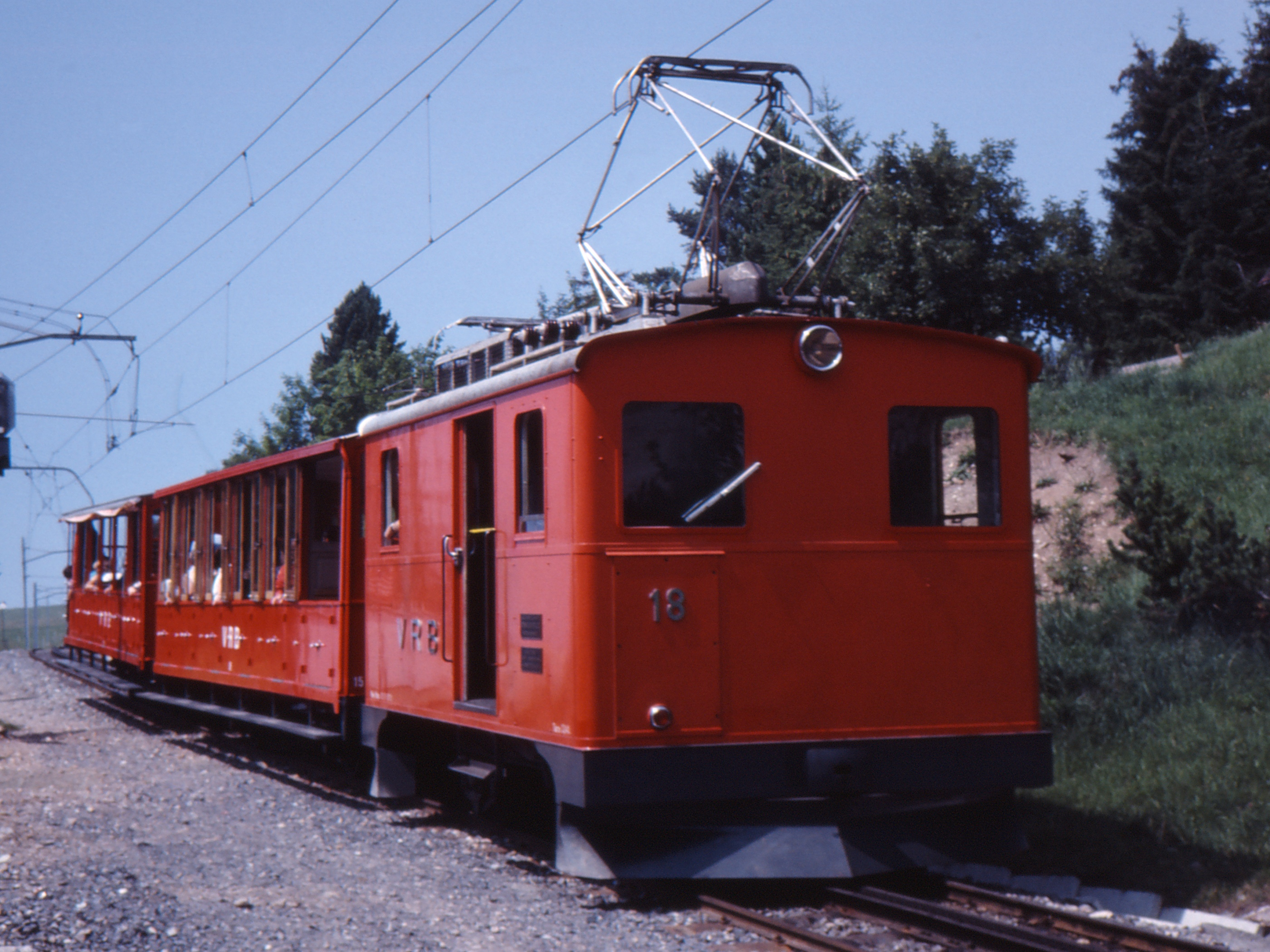 VRB Lok 18 near Kaltbad Station